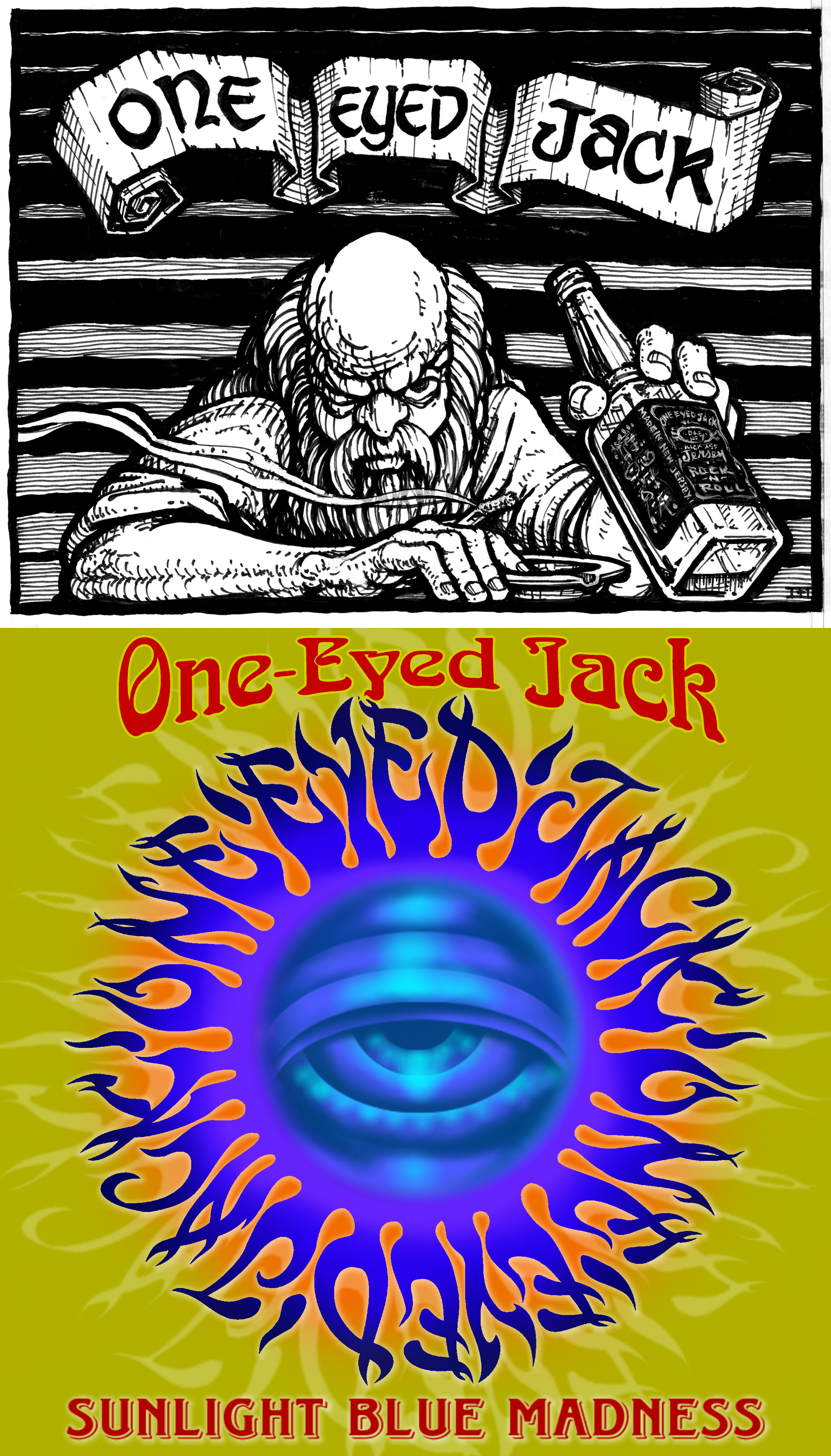 Black & white artwork created in pen & ink, then scanned. Sunlight Blue Madness artwork created entirely digitally in Photoshop & Corel Draw.